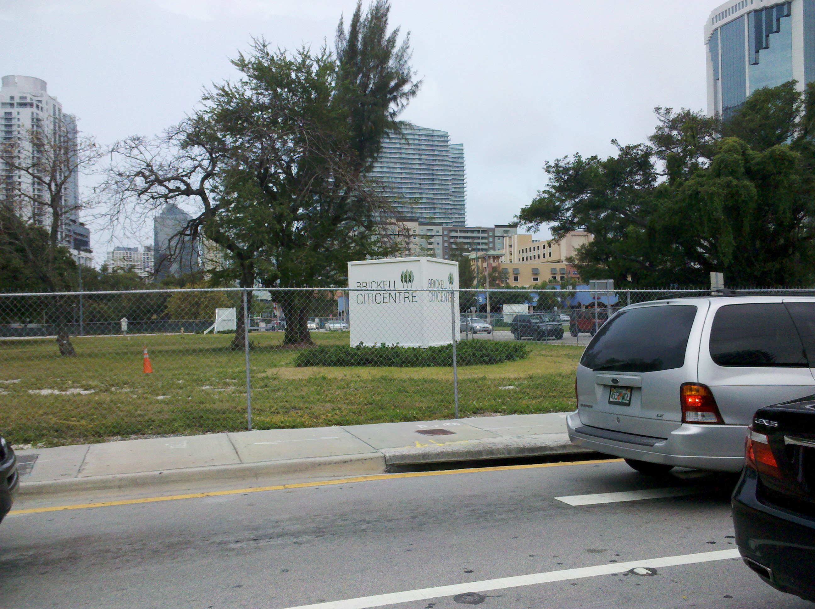 Brickell CitiCentre development site, March 2011